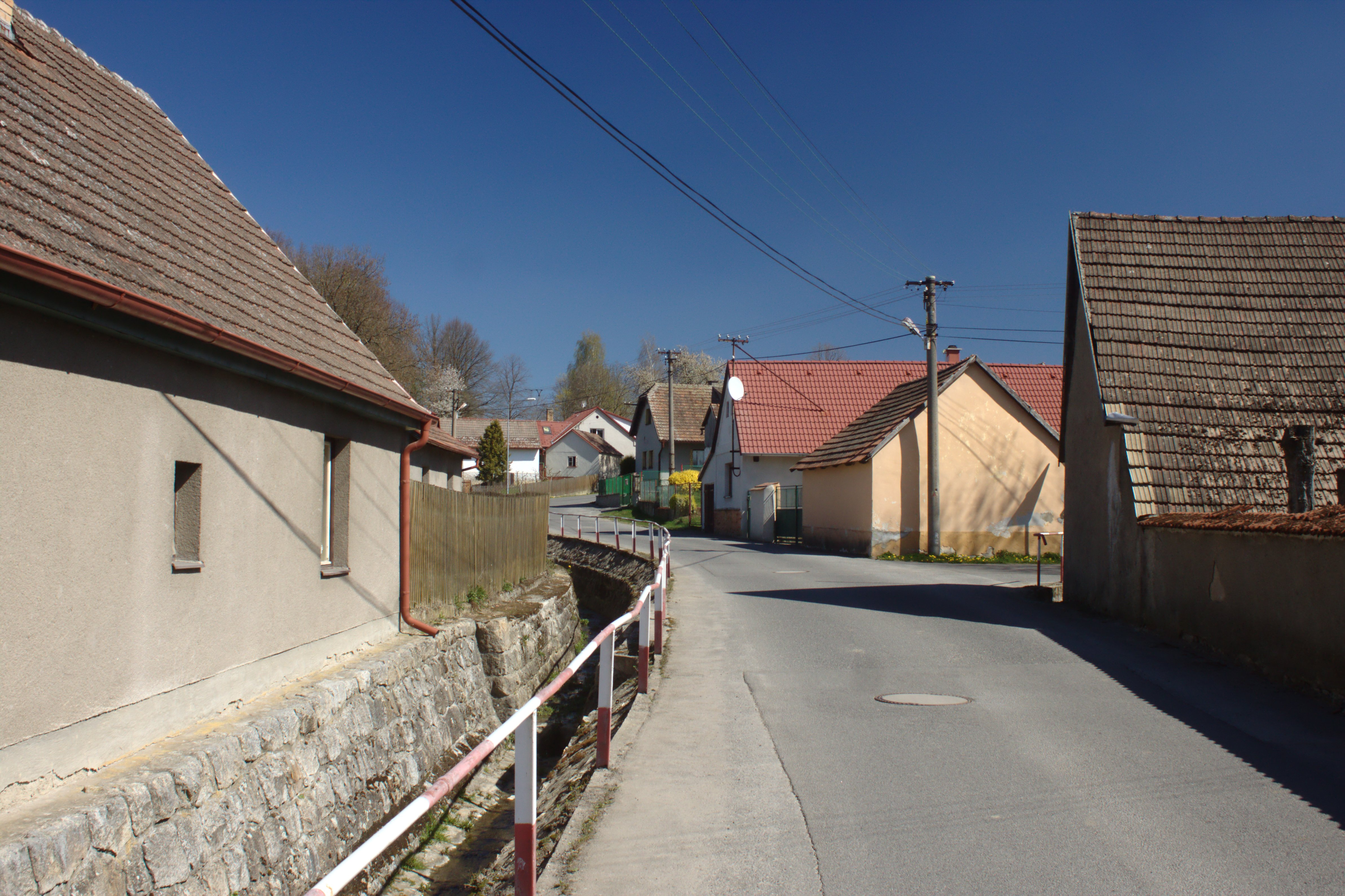 This photograph was created as a part of Wikiexpedition Mladá Vožice, a project supported by Wikimedia Foundation grant.